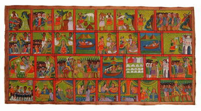 Illustrations to Kebra Negast, Ethopia.